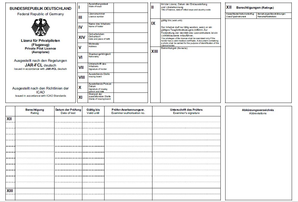 PPL(A) Licence